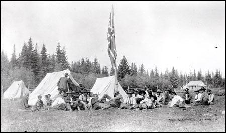 Chipewyan (Denesuline) people receiving Treaty 8 payments in Portage La Loche, Saskatchewan with the Hudson's Bay Company residence in the background (West La Loche) Circa 1911